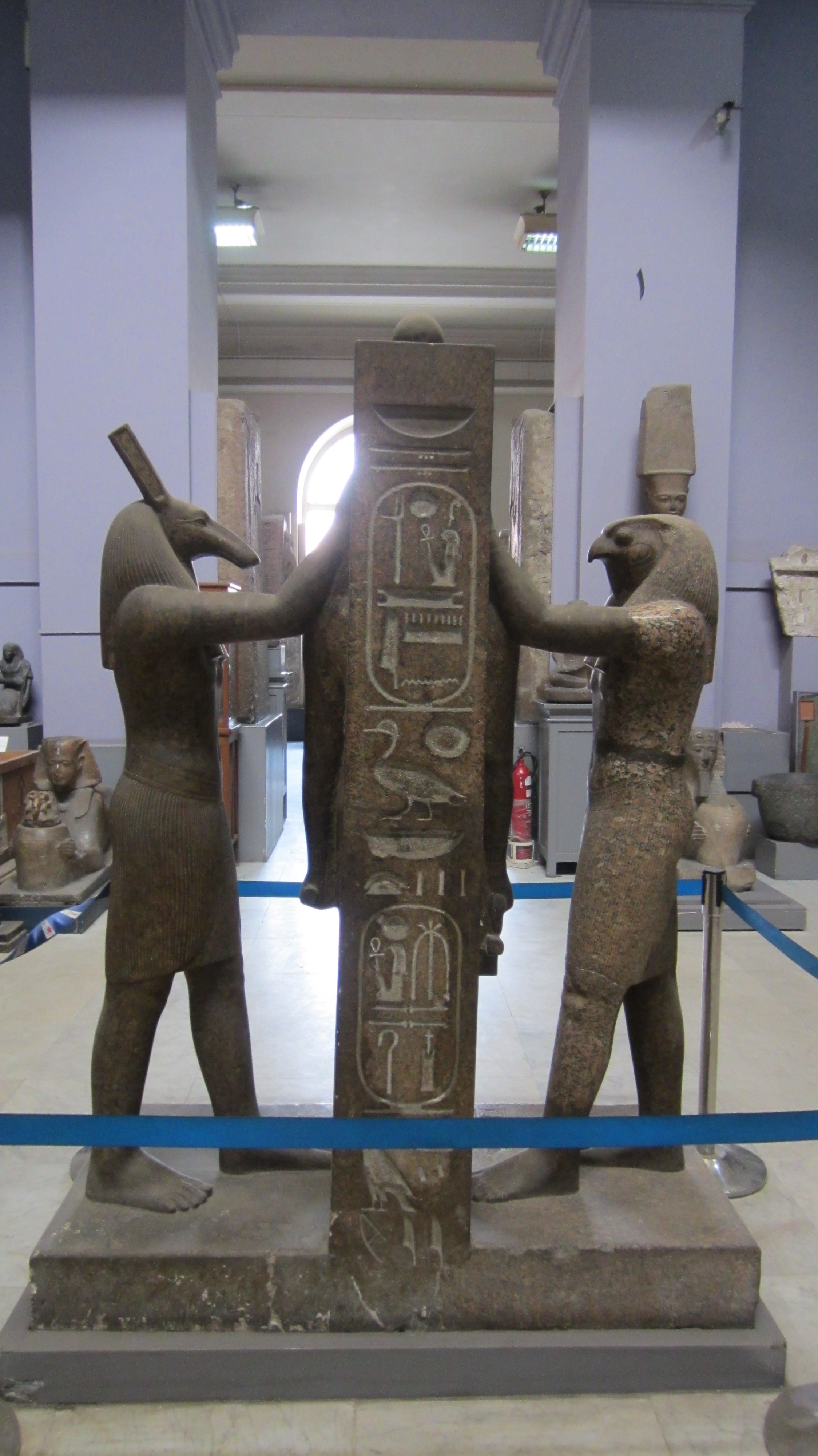 Statue of Horus and Seth placing the crown of Upper Egypt on the head of Ramesses III. Twentieth Dynasty, early 12th century BC.